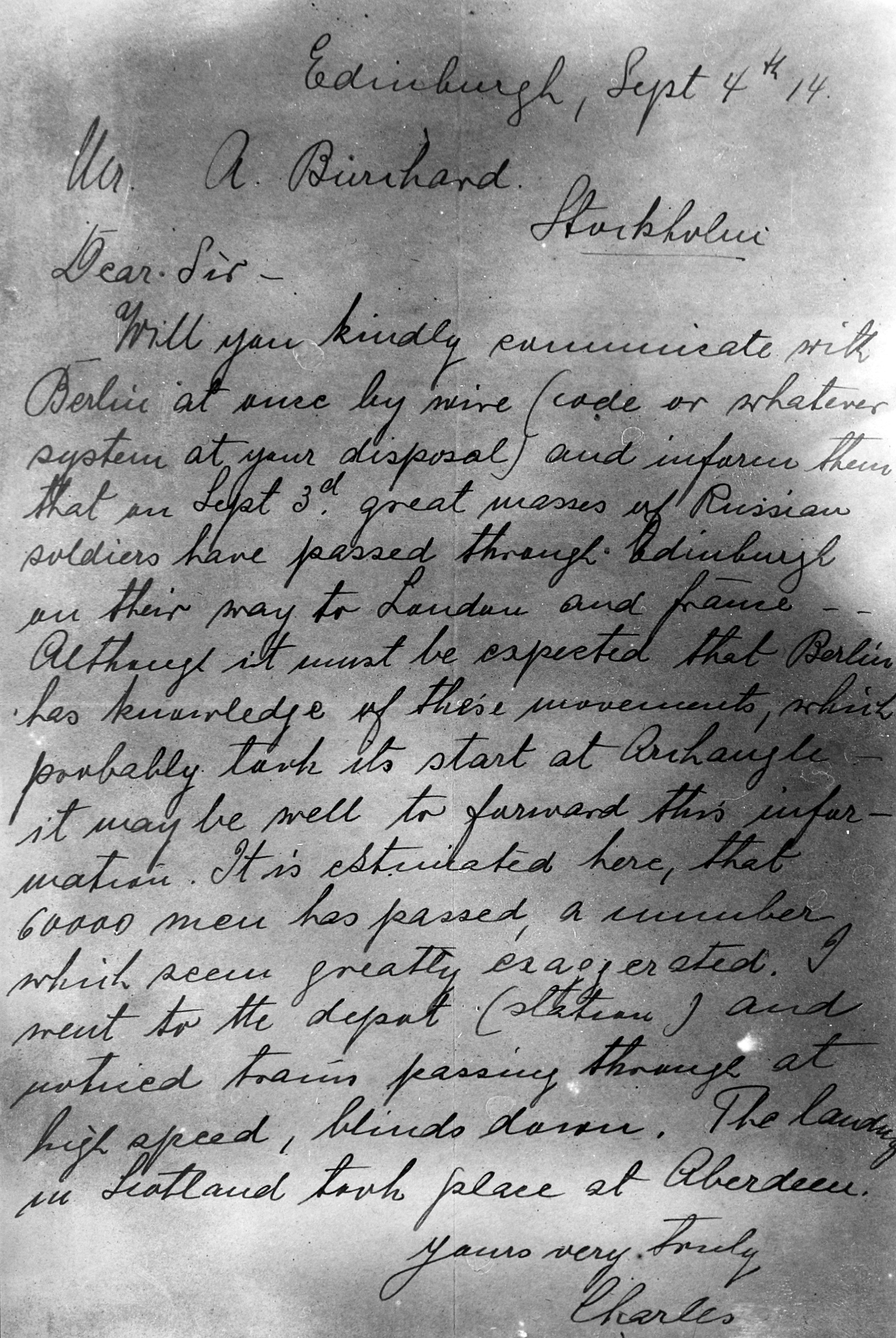 Letter from Carl Hans Lody to Adolf Burchard